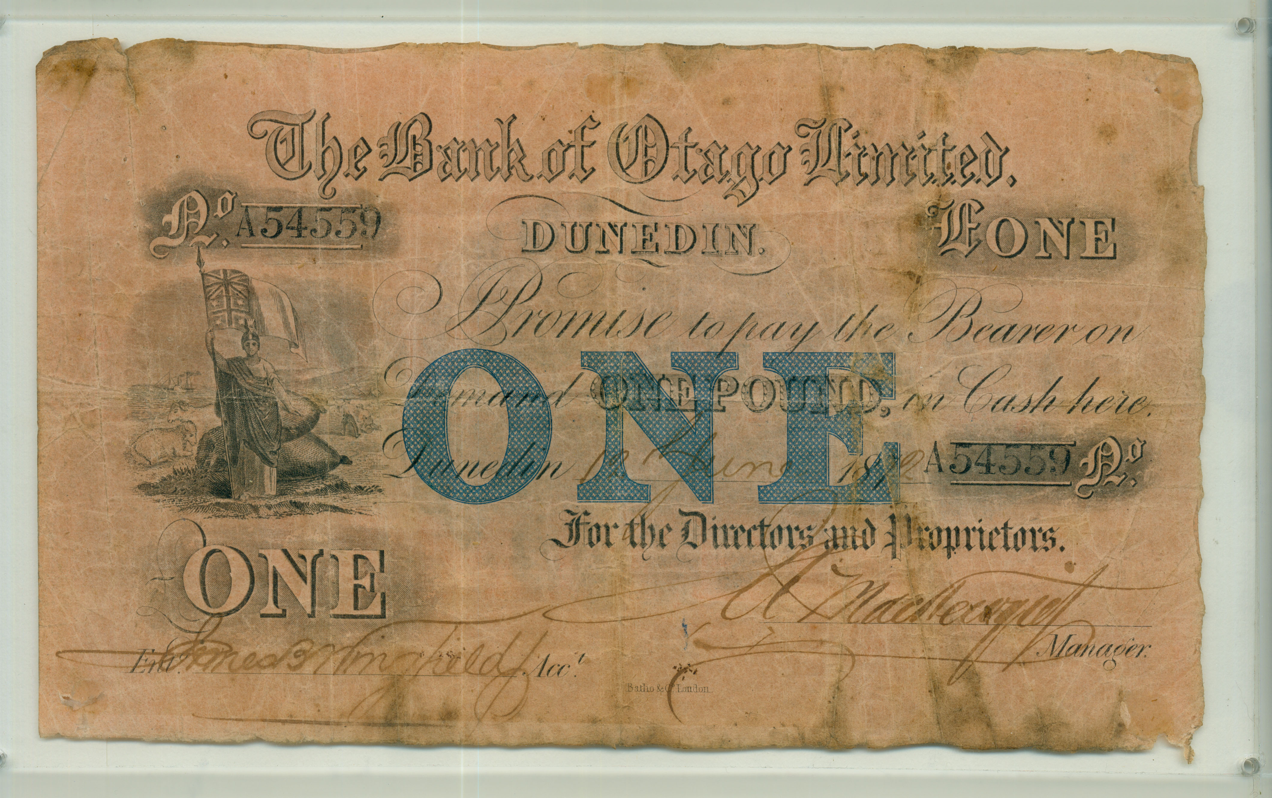 Bank of Otago Ltd banknote - 1 pound - 12 June 1872 - No A54559 obverse- Britannia standing holding flag unfurled with Union Jack above and St Andrews Cross and 4 stars below in pastoral scene with 2 sheep, wool bales, two men, one with pick, hut in distance, and sailing ship-paddle steamer in background black frame on pink paper; ONE in blue on obverse and blue pattern on reverse printed on paper; dated- 12 June 1872; serial number A54559; signed by Accountant and Manager